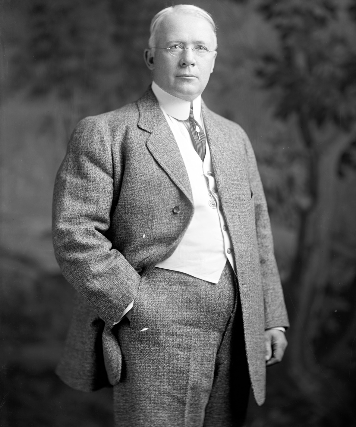 Thomas L. Reilly, US Representative from Connecticut